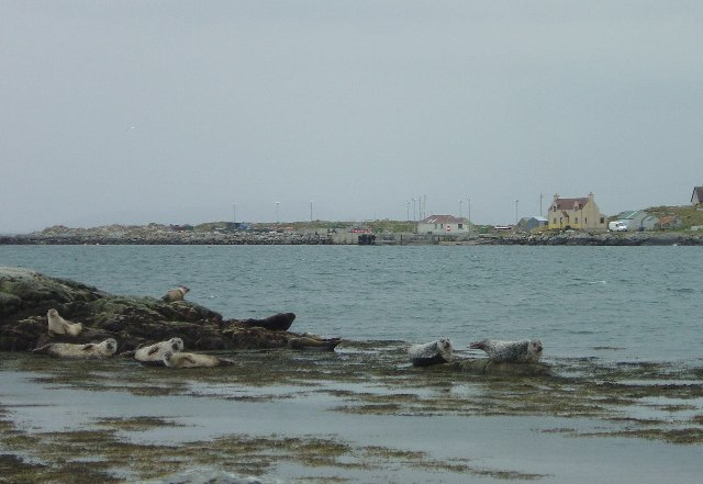 Seals at Berneray, Outer Hebrides, Scotland. Taken from the seal view point on Berneray in Bay's Loch. There are usually up to 40 seals with pups (at the breeding time) here just yards from the shore.